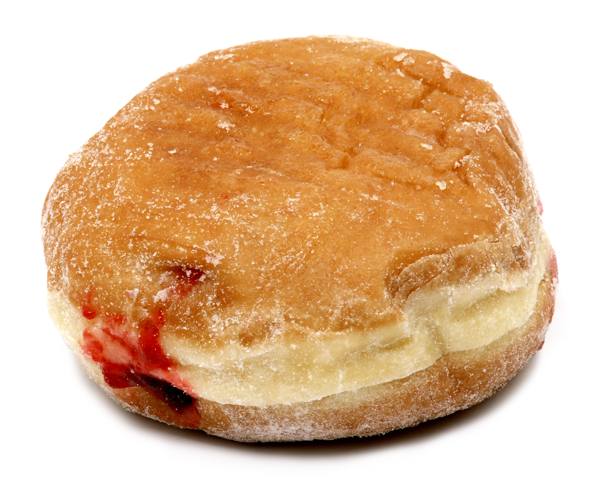 A jelly donut that was bought at Dunkin' Donuts in Brooklyn.